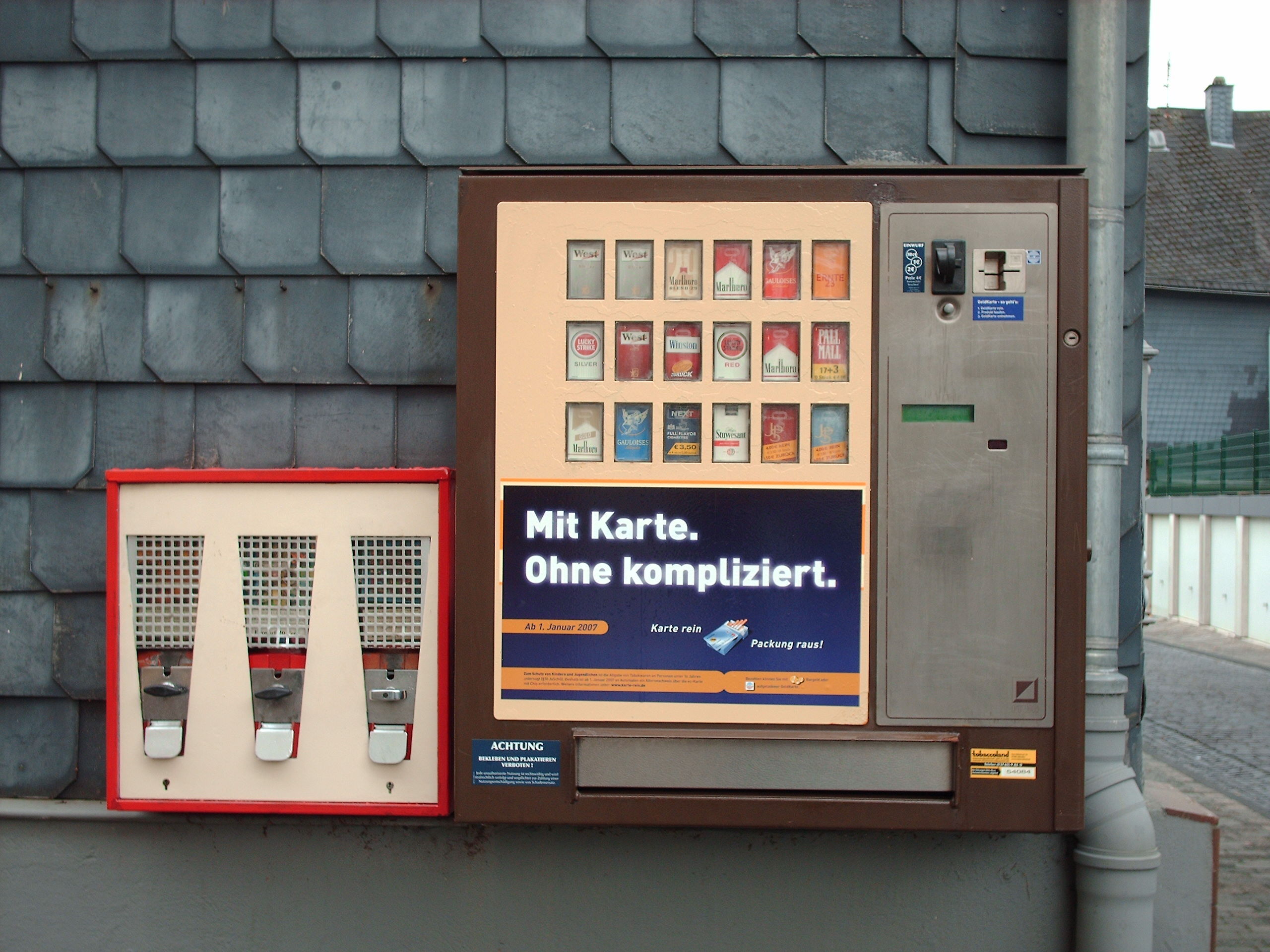 Vending machines for chewing gums and cigarettes, Hilchenbach, Germany check usage